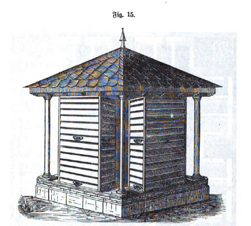 A Invention from the German (Thuringia) beekeeper August Sittich Eugen Heinrich von Berlepsch: 3-floor experiment- beehive